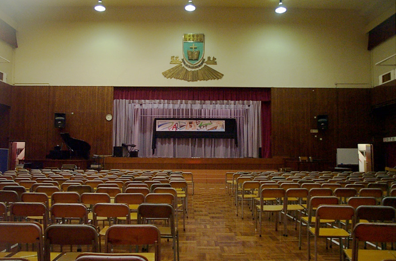 Baptist Lui Ming Choi Secondary School, Sha Tin, Hong Kong